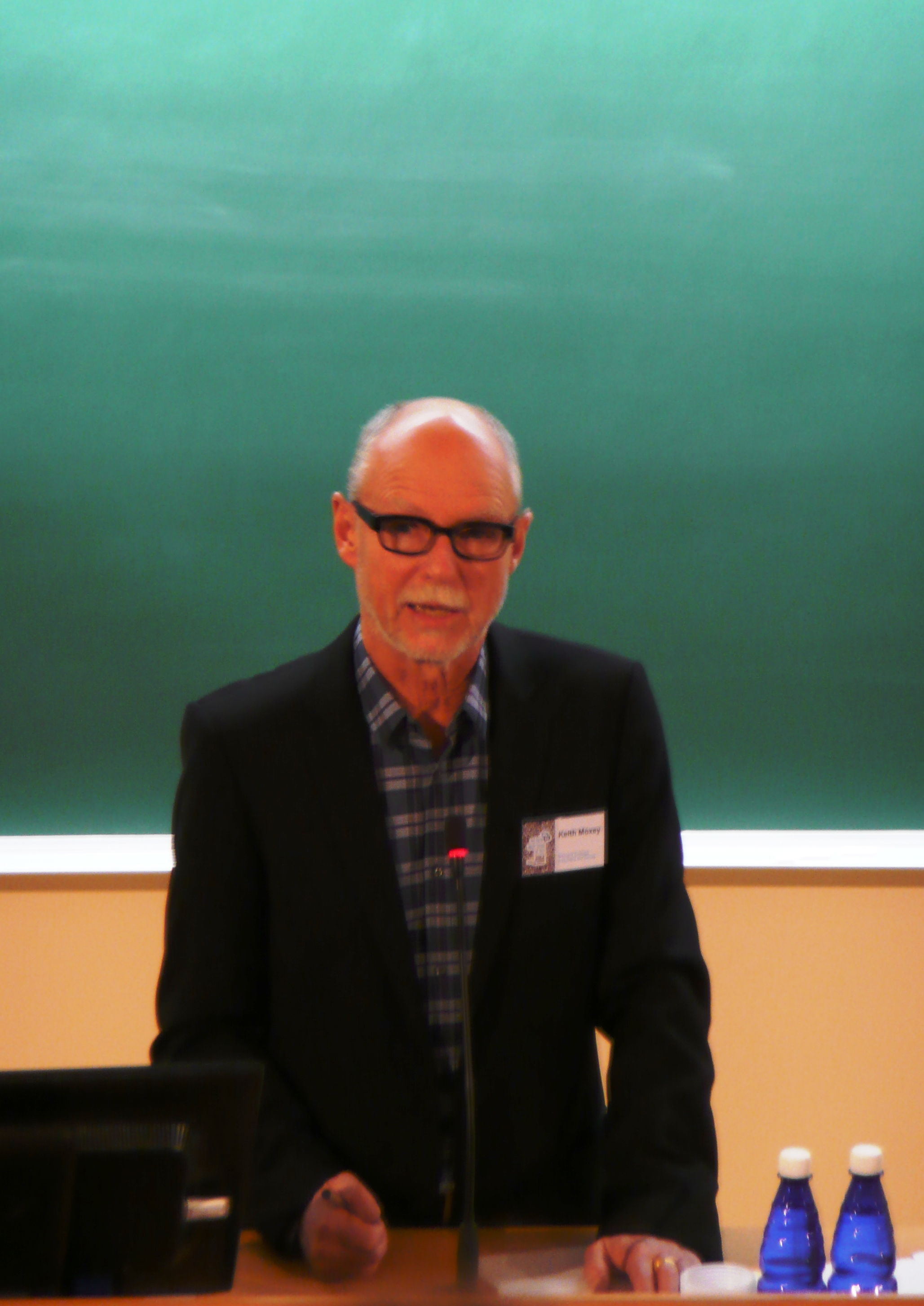 Keith Moxey (*1943) is an American art historian.